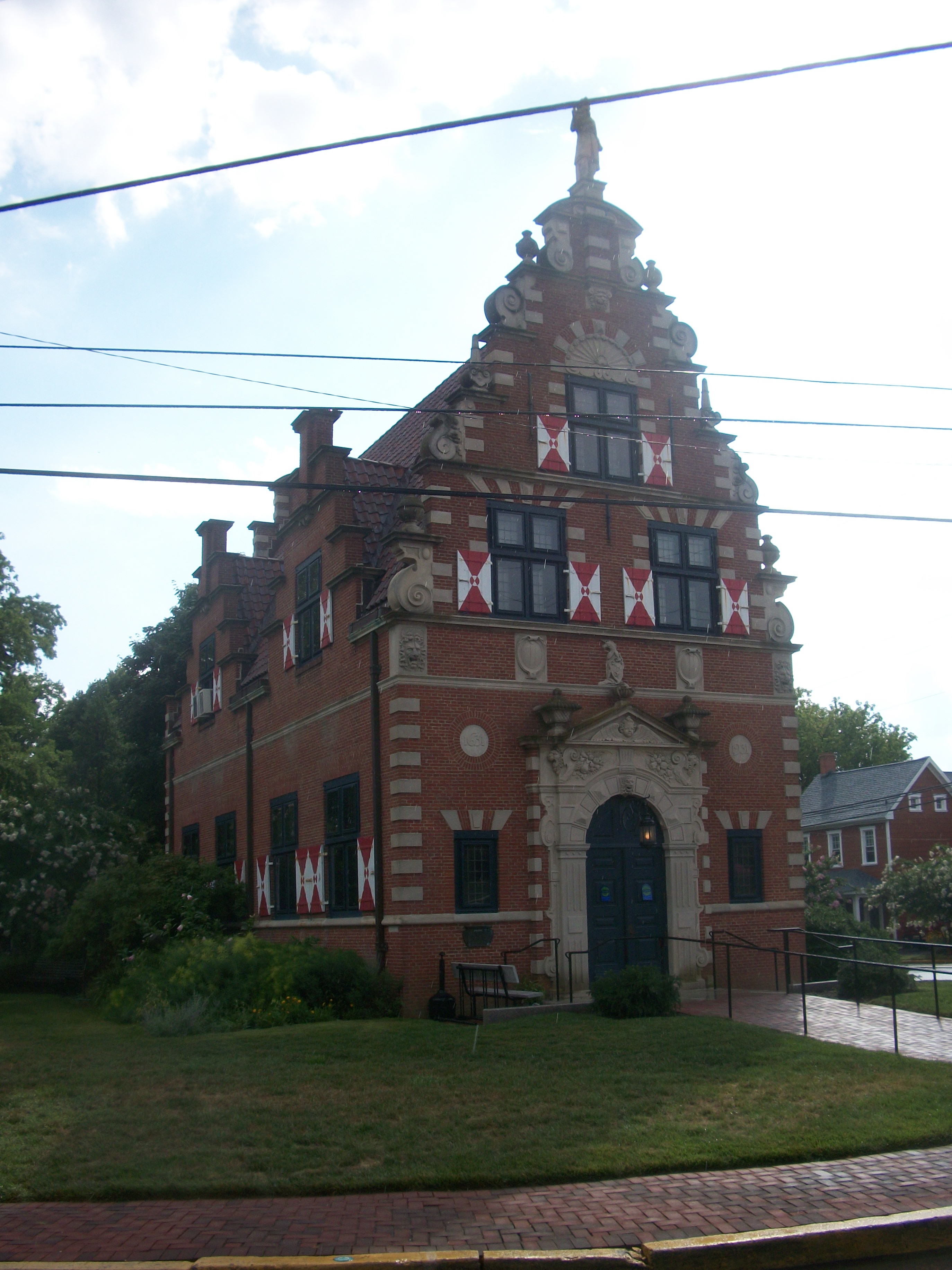 Taken July 21, 2010